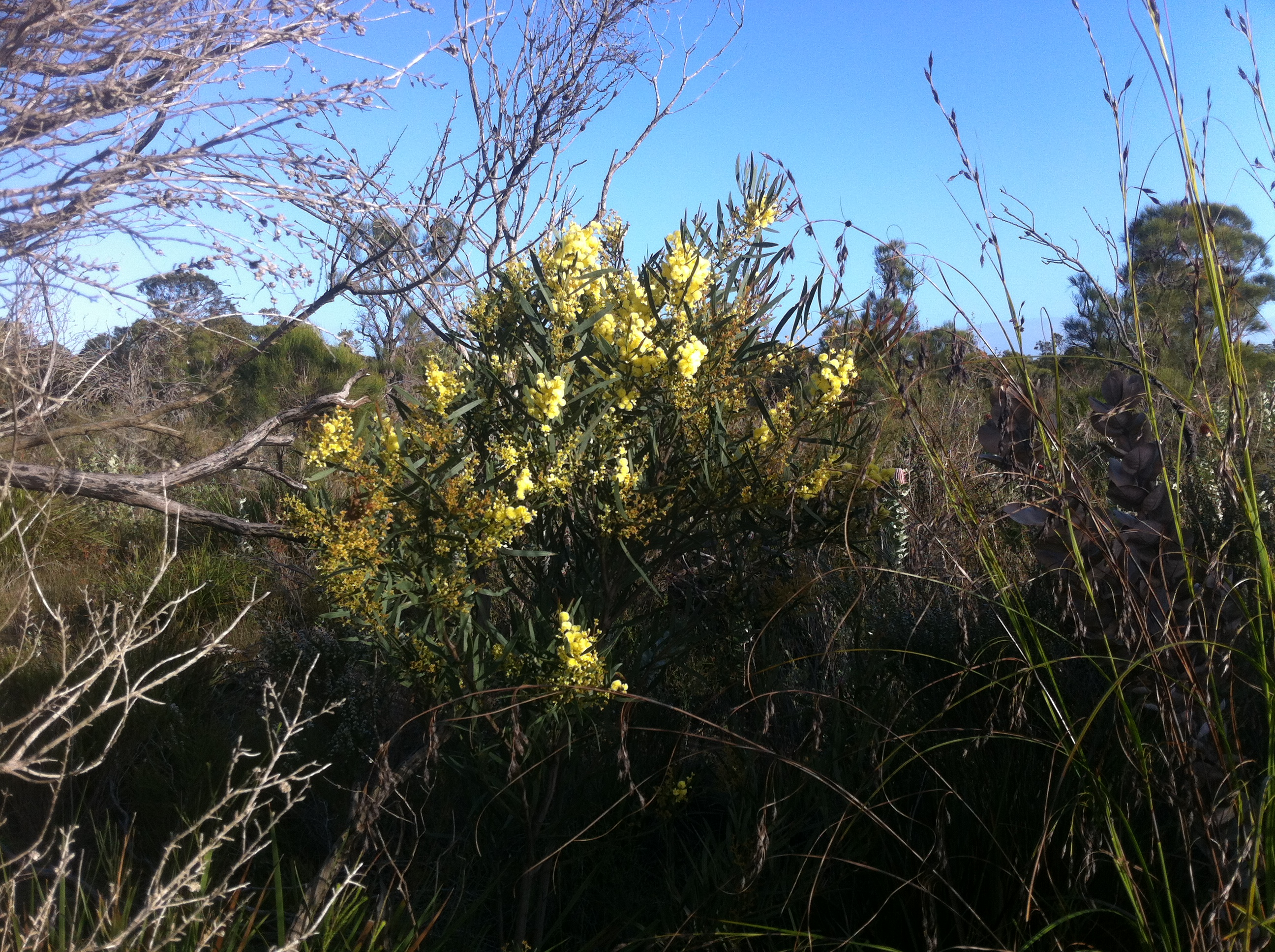 Acacia cochlearis at Gull Rock National Park